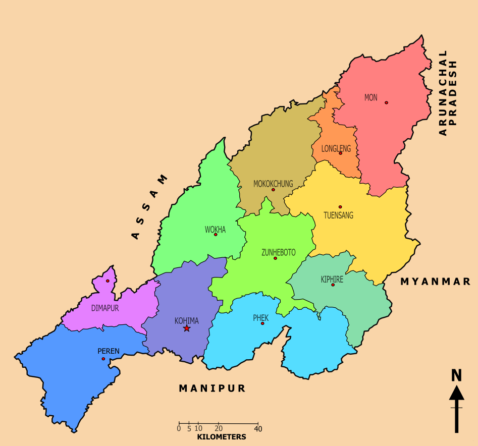 Map of Nagaland